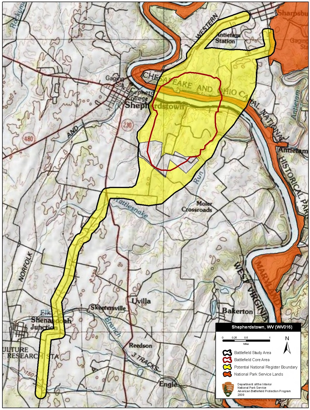 Map of battlefield core and study areas. The Study Area encompasses the Potomac River crossings, Botelers Ford, the mill dam, mill ruins, the river itself, approach routes to the river, artillery positions along the river bluffs on the Maryland and West Virginia sides of the river, the fields over which the two sides fought (including the Osbourn Farm).